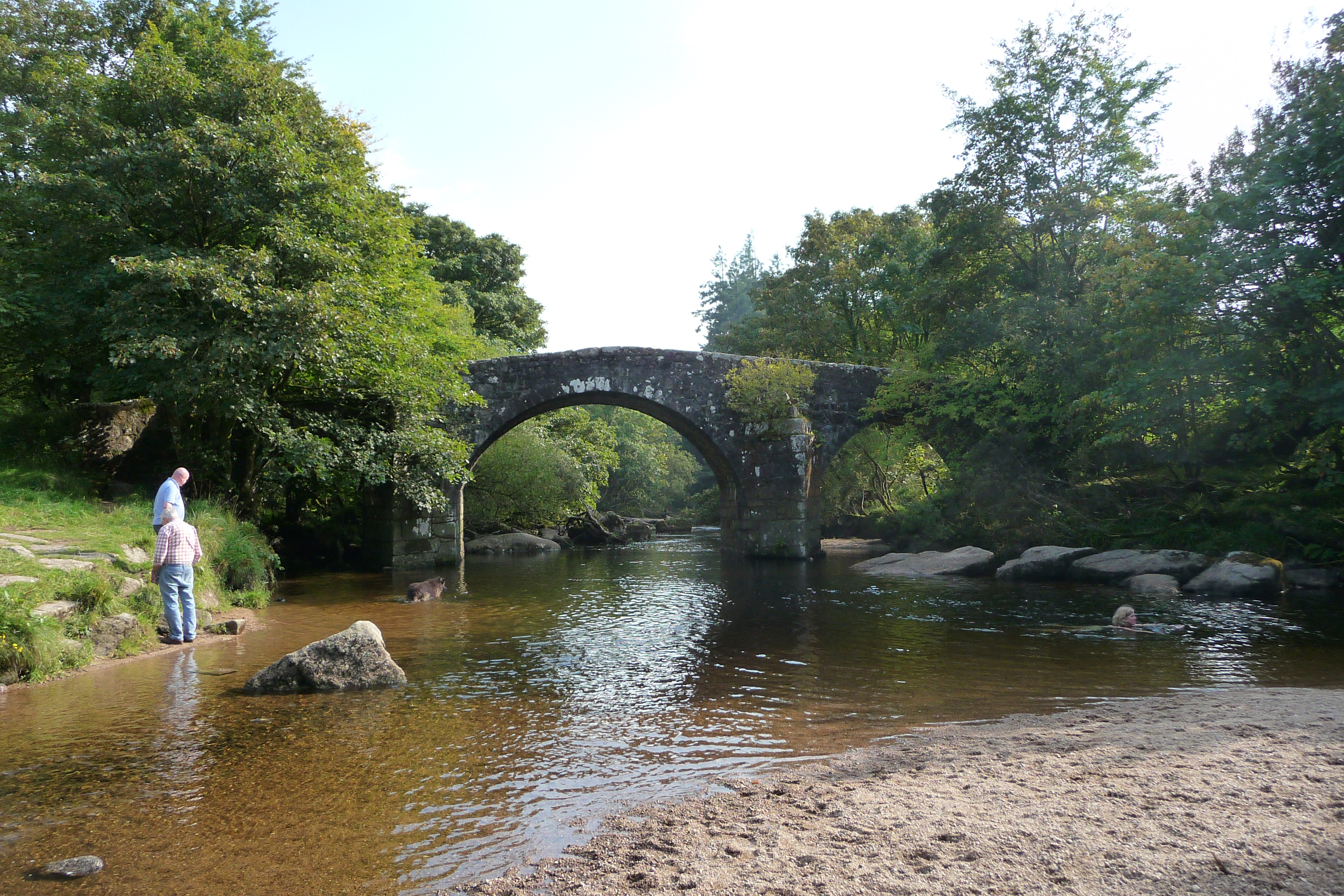 Hexworthy or Huccaby Bridge over the West Dart on Dartmoor, Devon